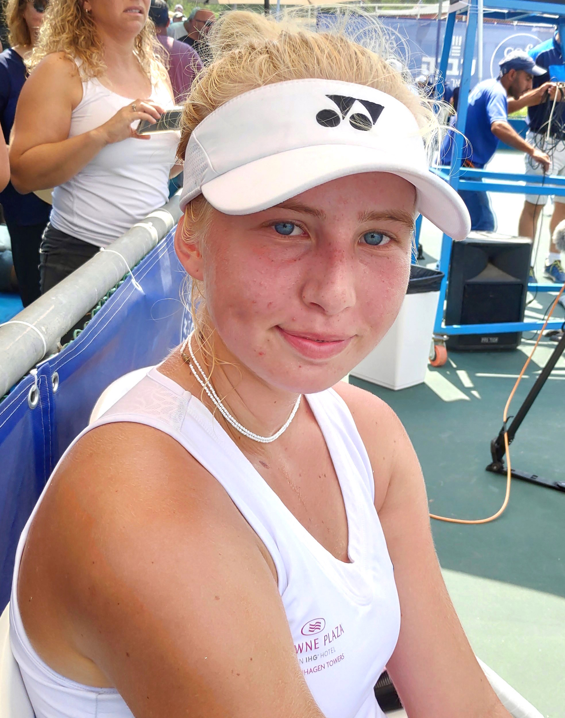 Clara Tauson, winner of the 2019 Meitar Open